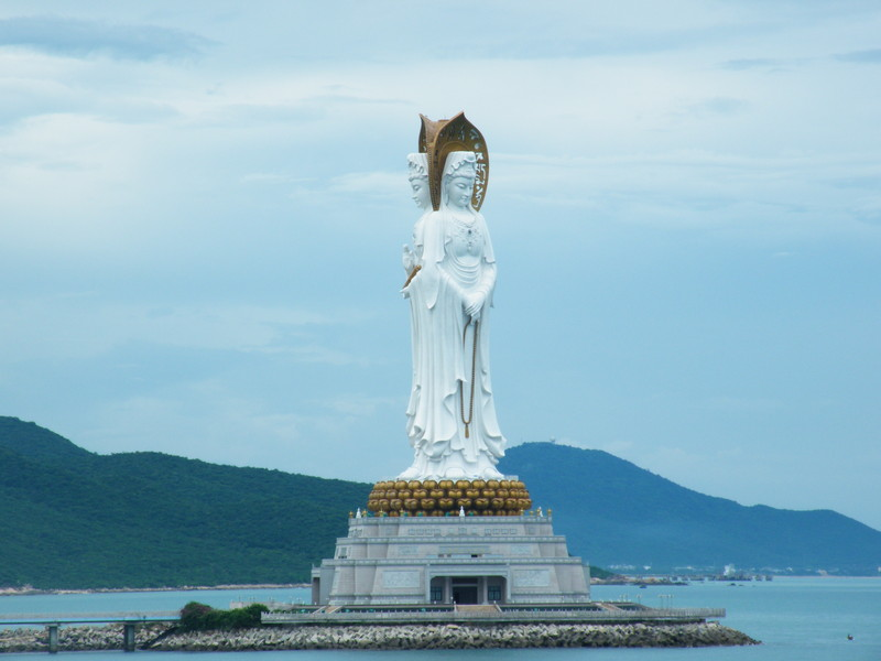 Guan Yin of the South Sea of Sanya — in Sanya, Hainan Province, Southeast China..